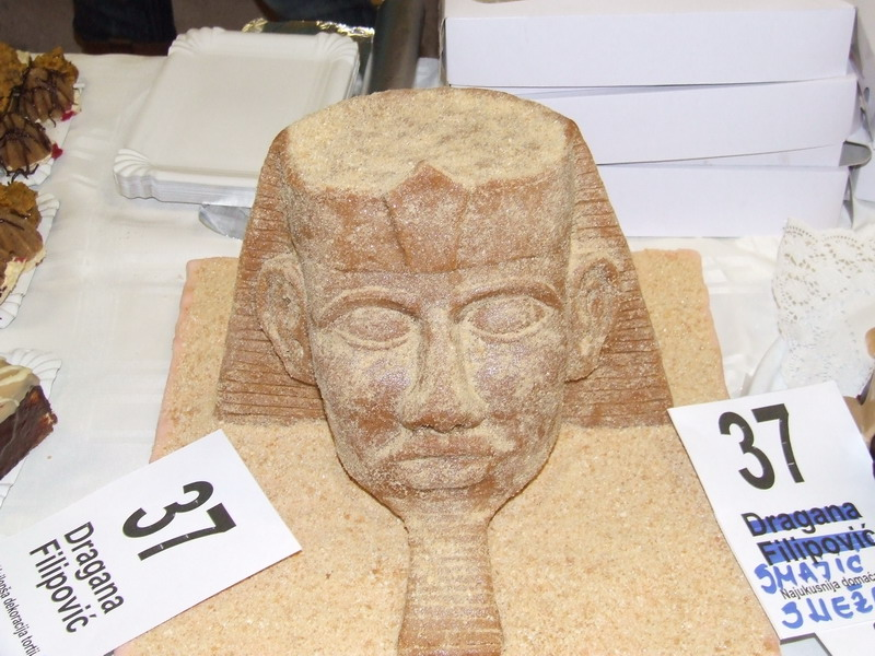 Photo-Cake decoration, Dragana Filipovic ETHNO FOOD AND BEVERAGE FAIR 2009.